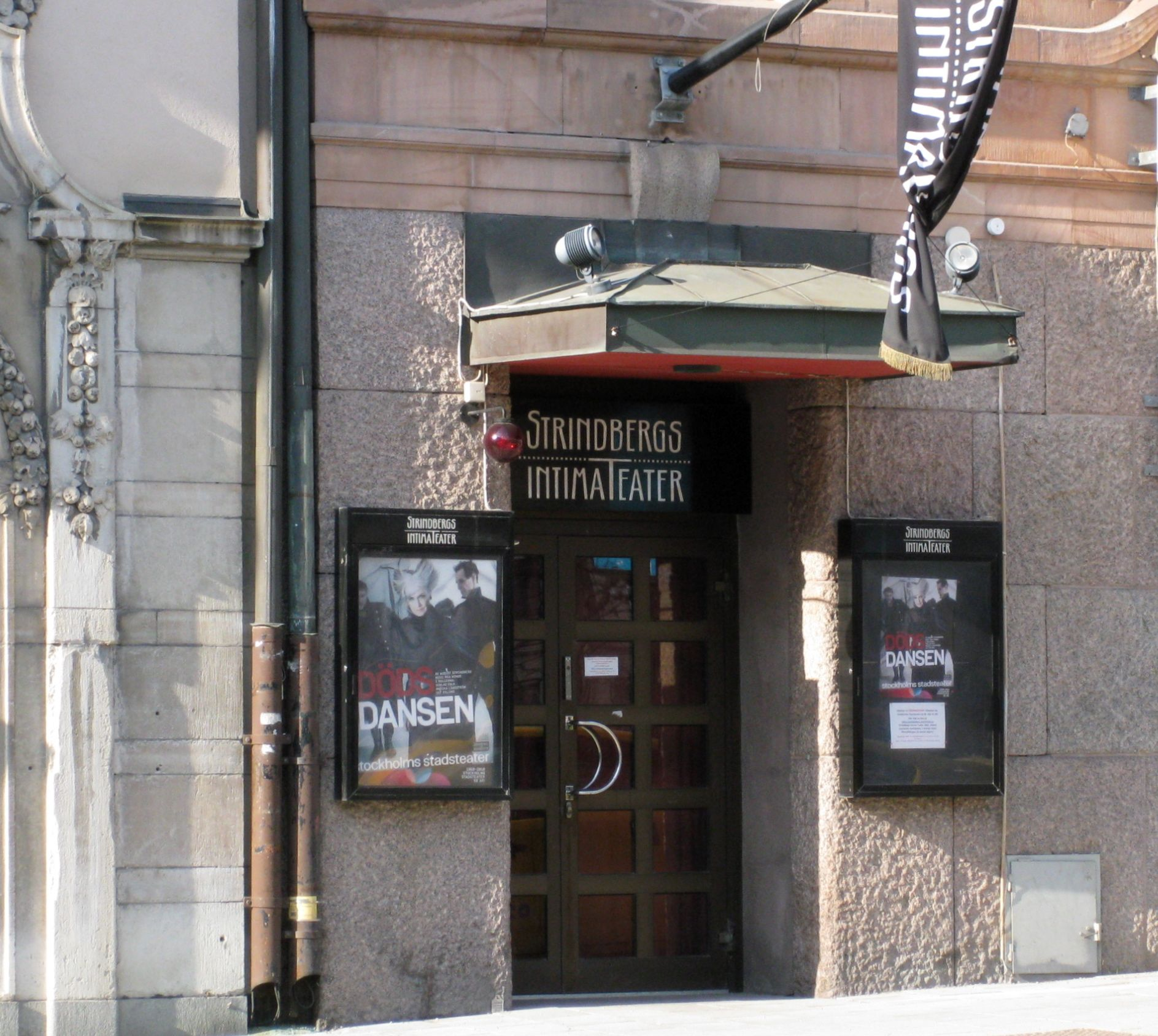 Strindbergs Intima Teater, Barnhusgatan 20 by Norra Bantorget, Stockholm, Sweden.